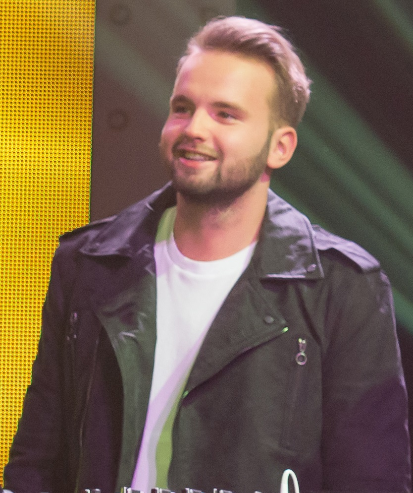 Cropped Version of Image: Topic feat. Nico Santos - Deutscher Radiopreis Hamburg 2016 02.jpg Topic beim Deutschen Radiopreis in Hamburg 2016